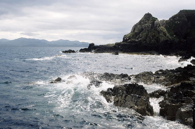 Northern coastline of Muck There is a small bay on the north coast accessible by a faint footpath. This is an area where otters are to be seen.